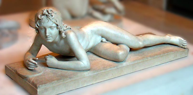 Hyacinth, front view of statue by François Joseph Bosio in the Louvre. Image adjusted to obscure background.